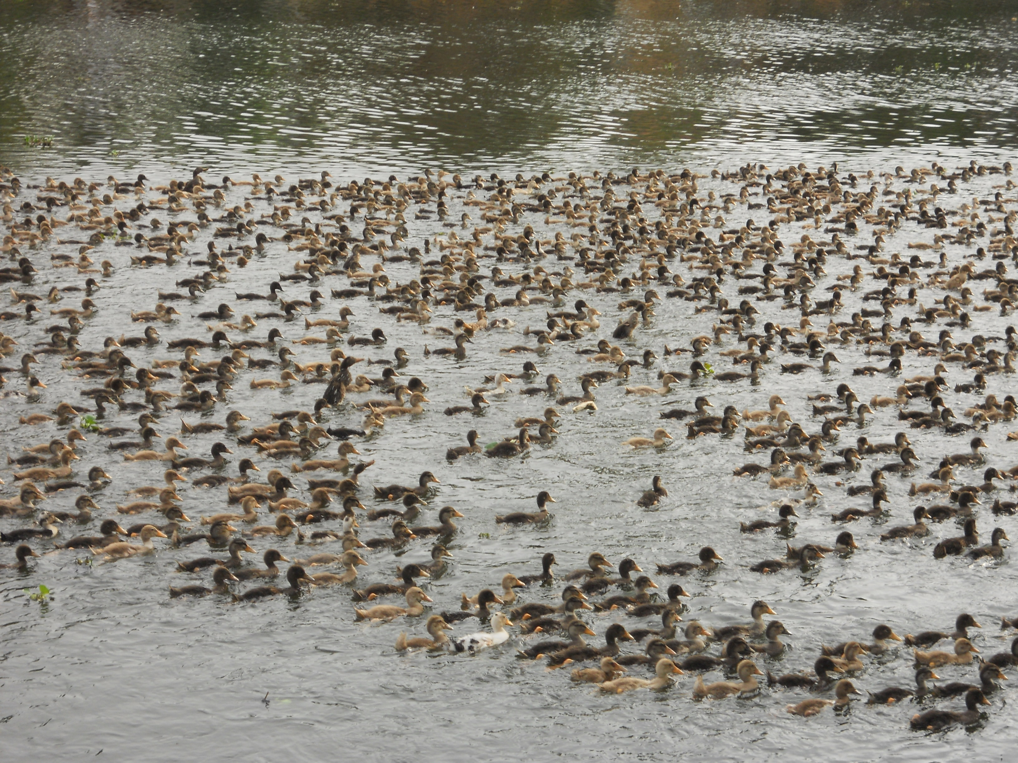 Ducks in vembanad lake